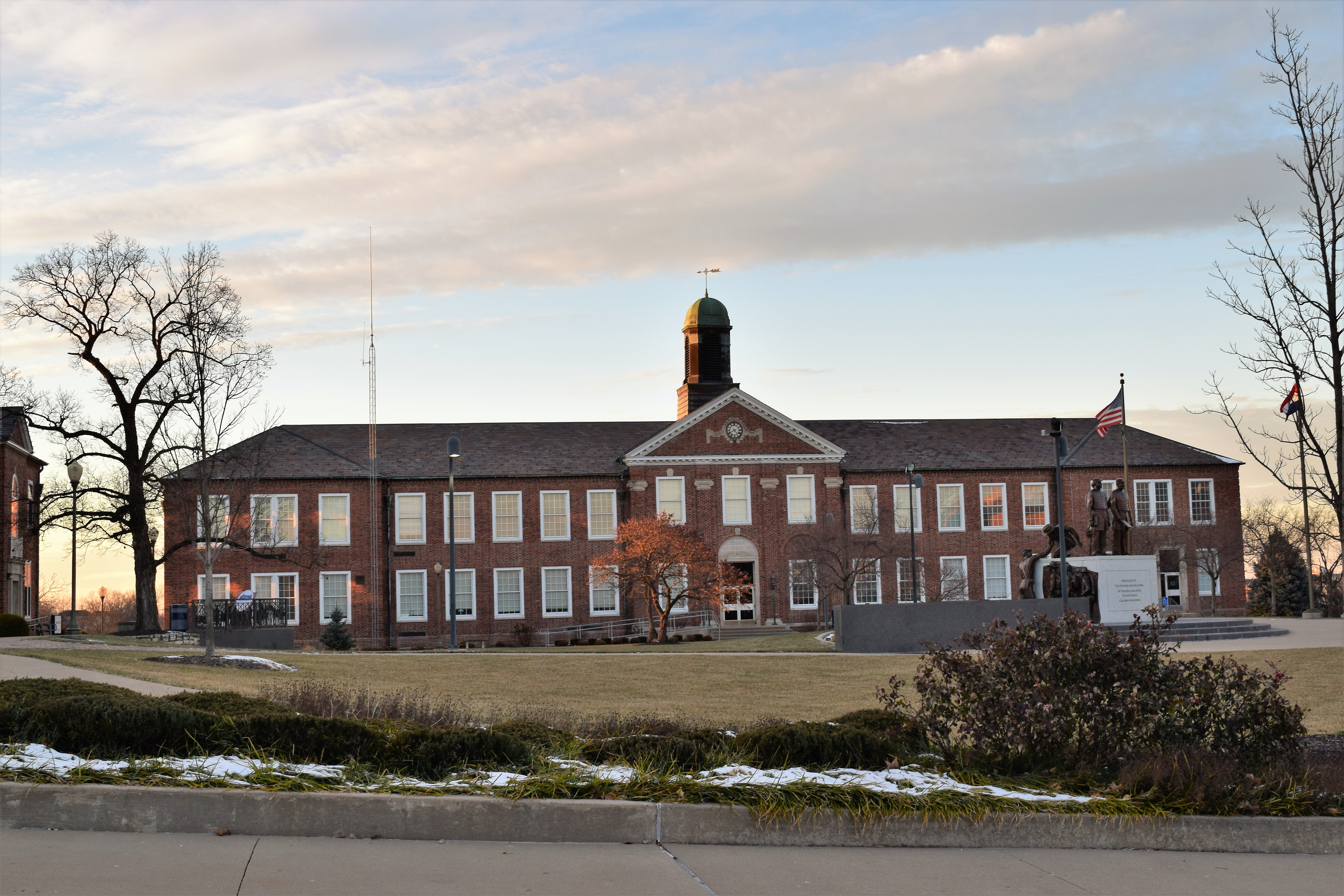 Young Hall at Lincoln University, a historically black public university in Jefferson City, Missouri.